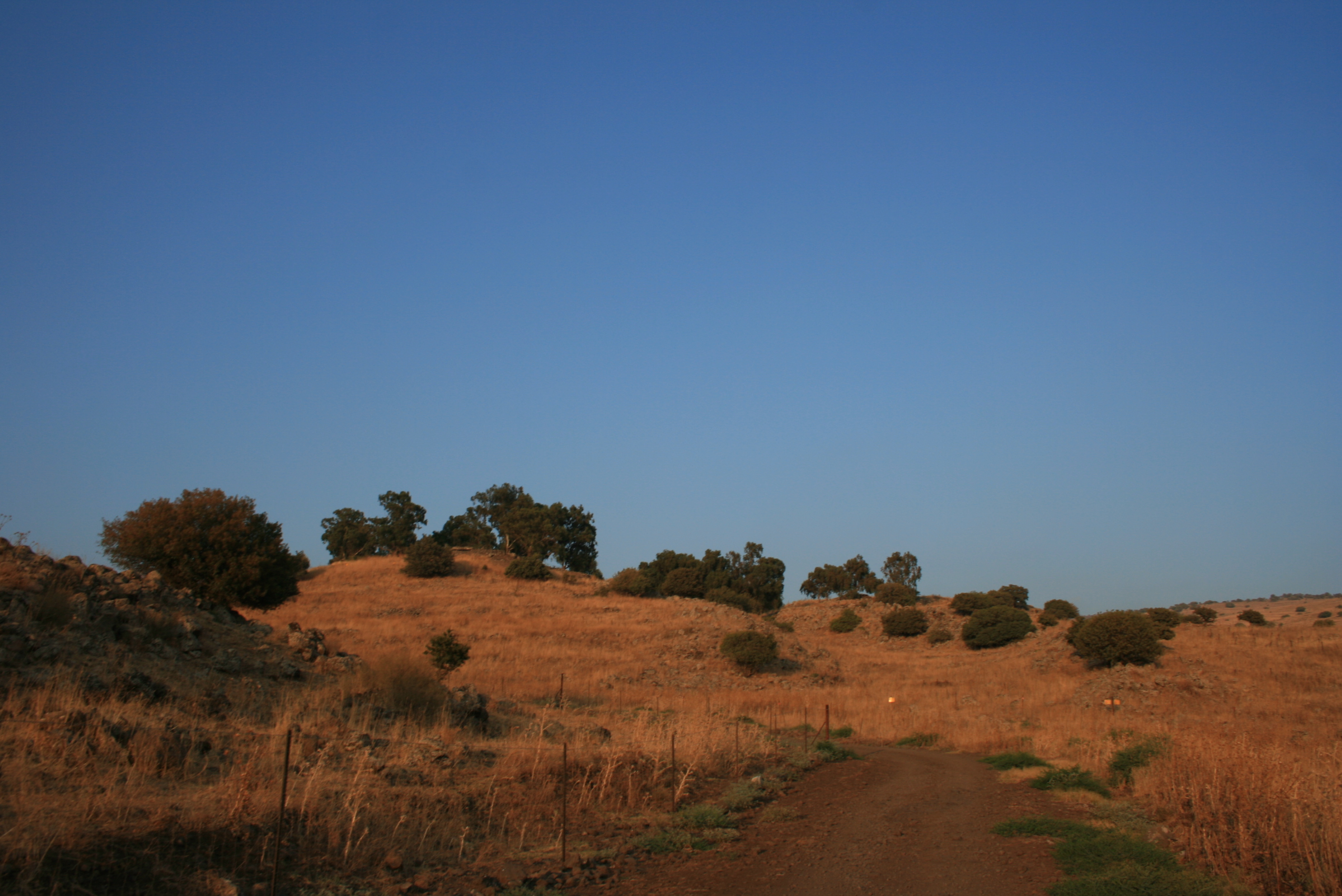 Tel Faher from the west.